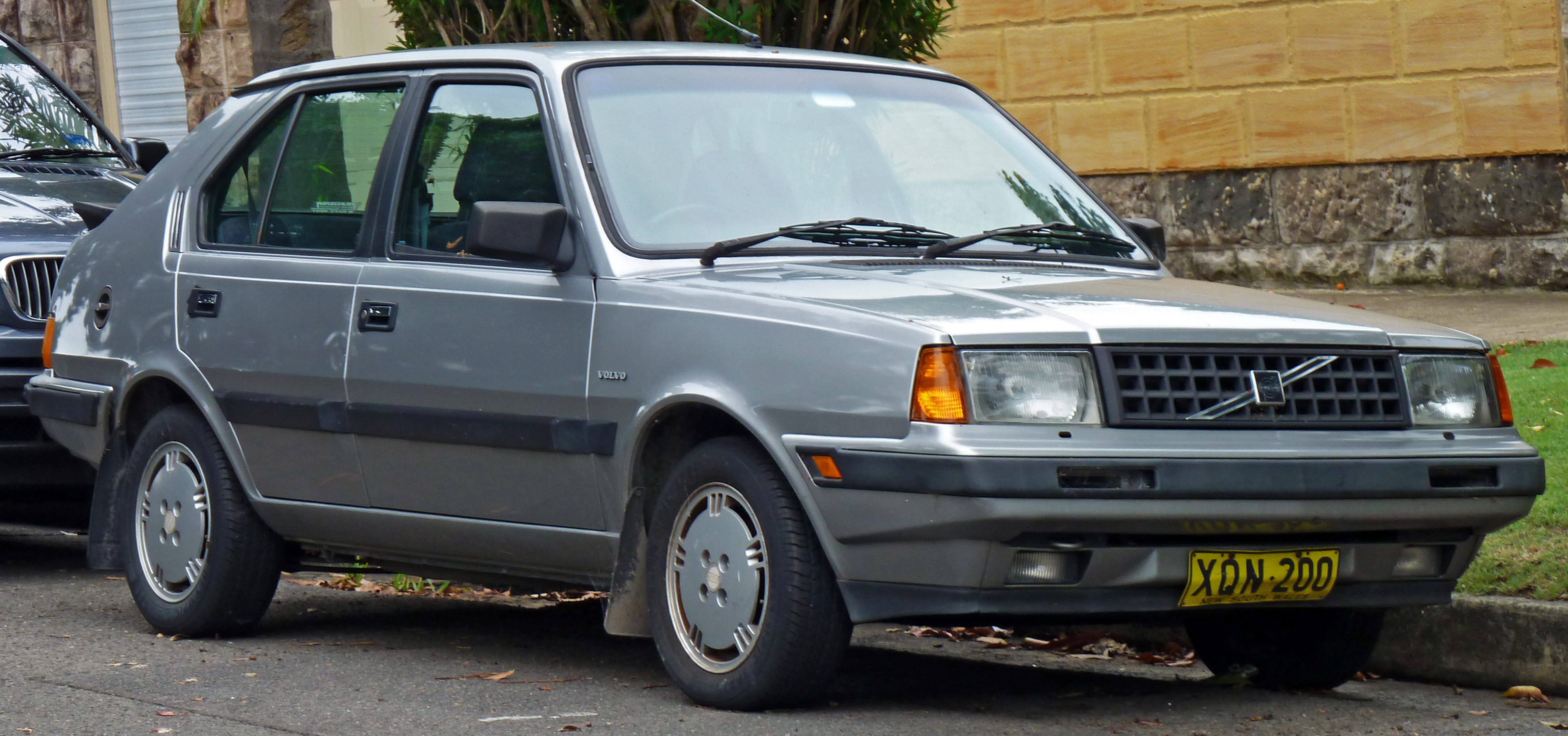 1987 Volvo 360 GLT 5-door hatchback. Photographed in Rose Bay, New South Wales, Australia.